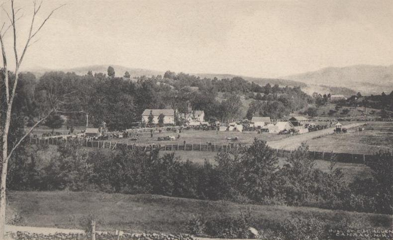 View of the Canaan Fair, Canaan, New Hampshire